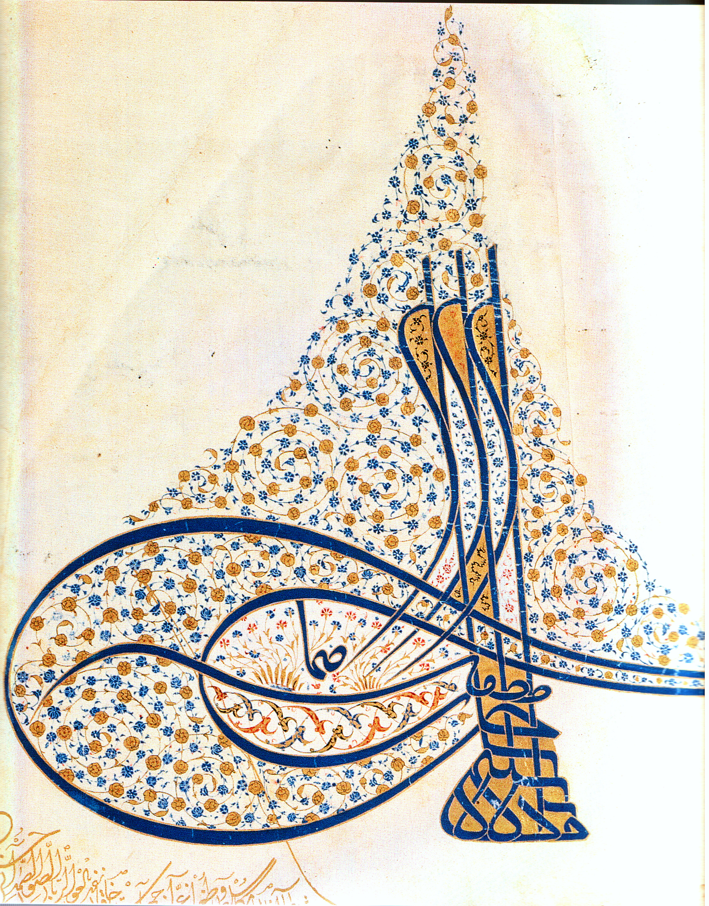 Tughra drawn on a berat dating from the reign of Murad III (r. 1574-95). Ink, colors and gold on paper. It reads Sah Murad bin Selim Sah Han el-muzaffer daima (Shah Murad, son of Shah Selim Han, the ever-victorious).